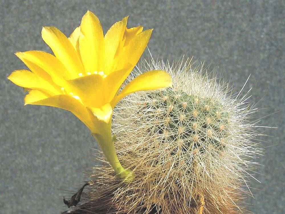 Rebutia chrysacantha Backeb. var. kesselringiana (Bewer.) Donald ex Sida - cultivated plant from own collection.